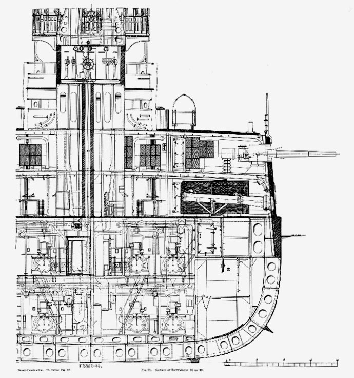 Photo #: NH 76632 USS Kearsarge (BB-5) and USS Kentucky (BB-6) Midship section plan, through the conning tower at Frame 33, showing the ships as designed. The arrangement of armor is depicted, along with one 5/40 broadside gun, an 18-inch above-water torpedo tube, and the steering wheels in both the armored conning tower and the pilothouse. Copied from R. Robinson, Naval Construction, 4th Edition, 1917, page 160-61. U.S. Naval History and Heritage Command Photograph.